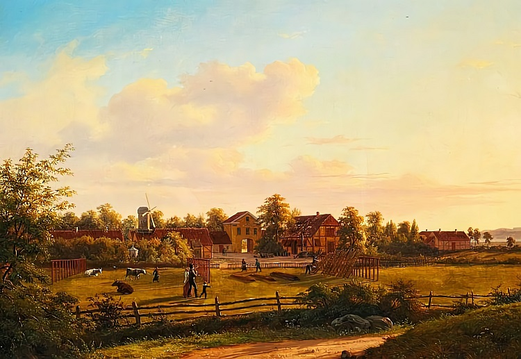 View of Amager with councillor L. P. Holmblad's glue factory. Mr. Holmblad's oil mill, candle factory and state mansion were situated to the left. In the background to the right Frederiksberg Castle. Signed F. C. Kierschou. Oil on canvas. 63 x 90 cm